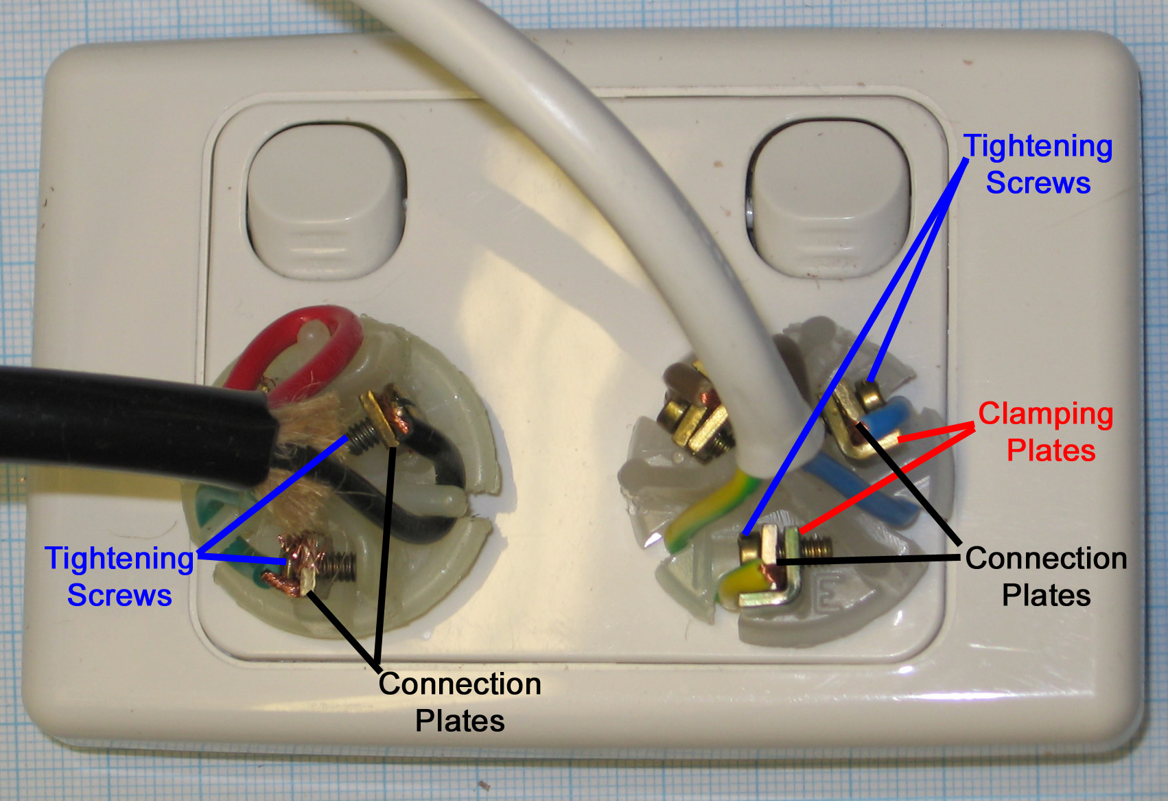 Screw Terminals of two different types - Basic and Clamping/Compression